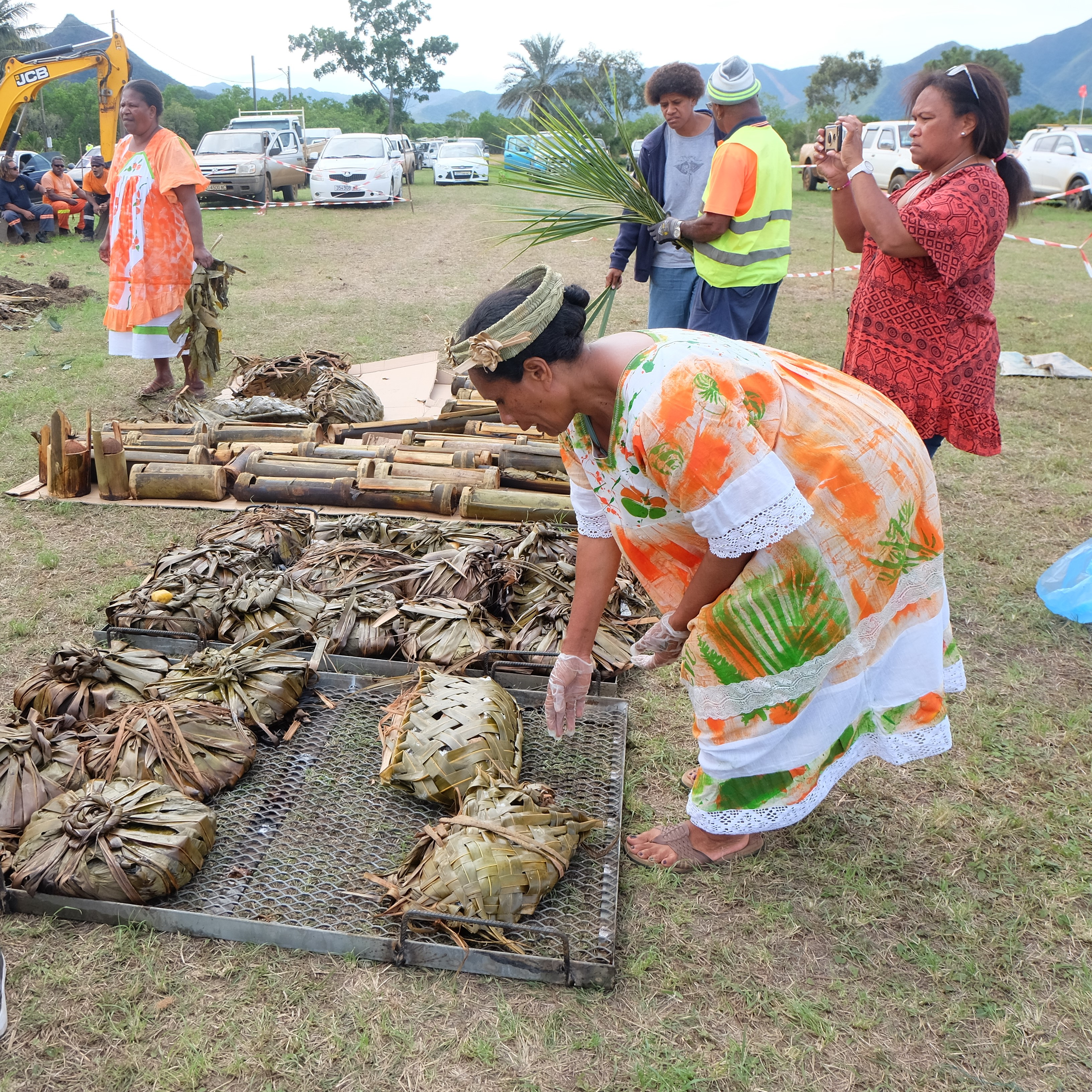 The "bougna" is the traditionnal meal from New-Caledonia, made of taro, manioc, ignam, soaked in coco milk, with chicken, papaya, banana... The whole thing is wrapped, cooked and served in banana leaves.